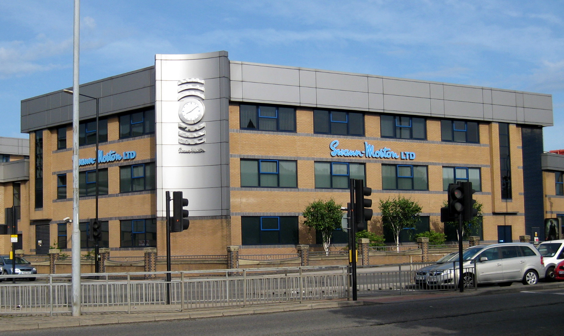 Swann Morton company headquarters, corner of Penistone Road (A61) and Holme Lane (A6101) Sheffield S6 2BJ